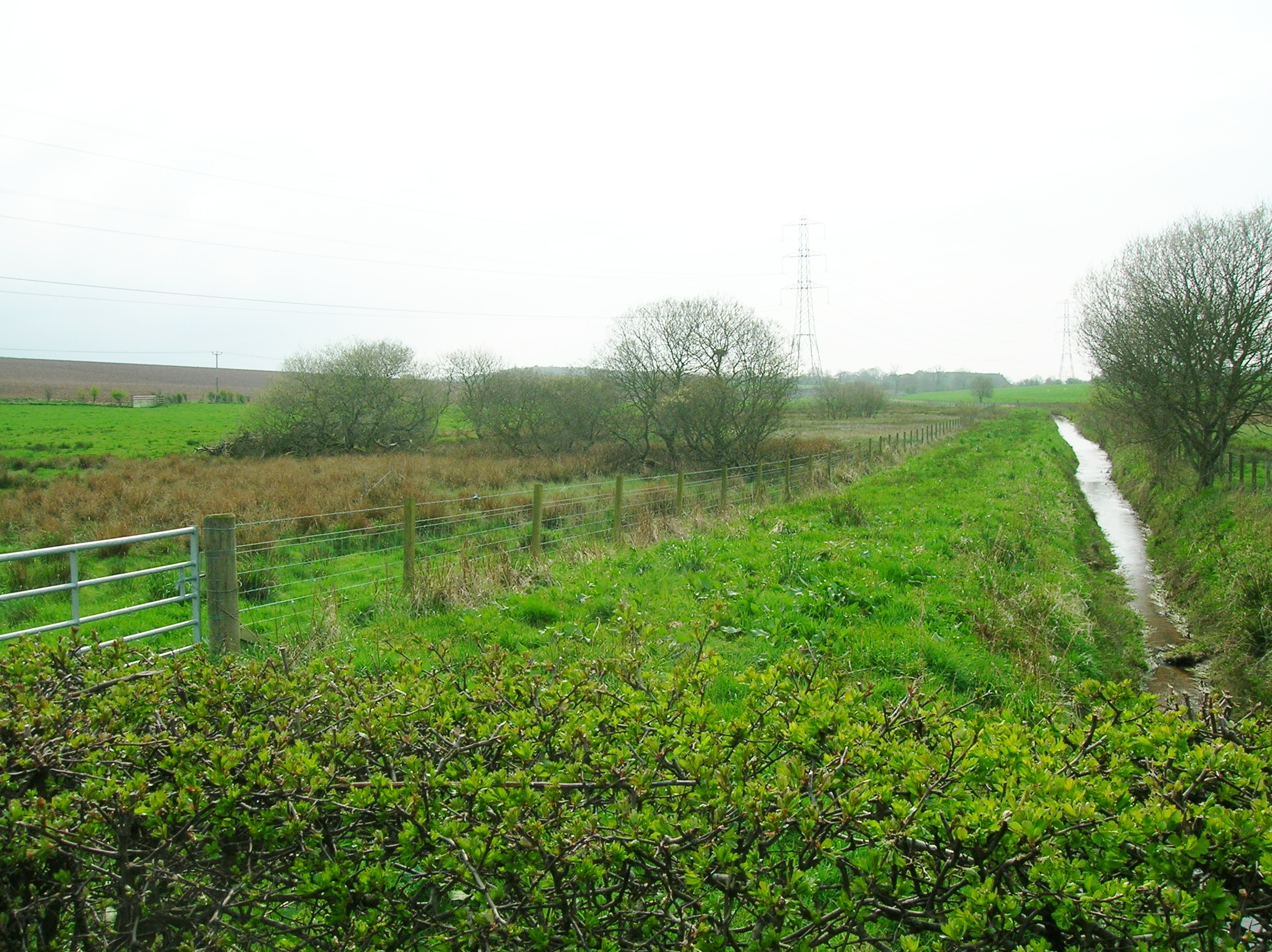 The site of the Loch of Trabboch with willows growing on the old island site, East Ayrshire, Scotland.